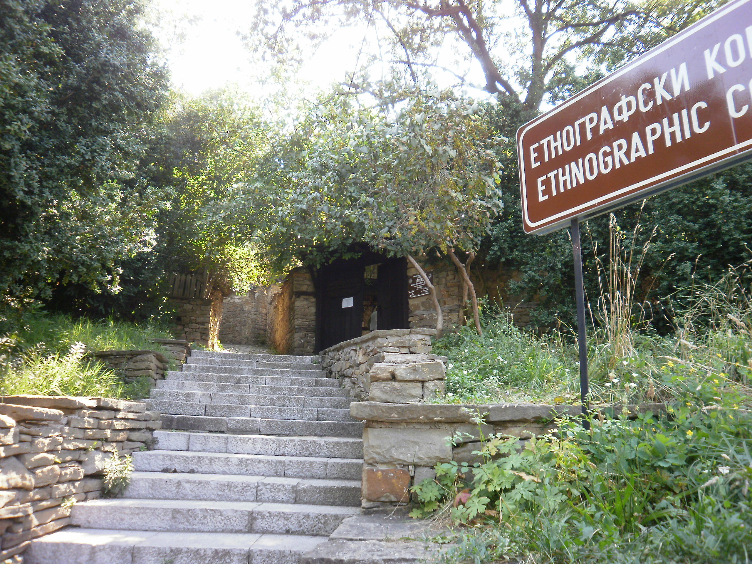 Ethnographic complex "Varosha", Lovech, Bulgaria.